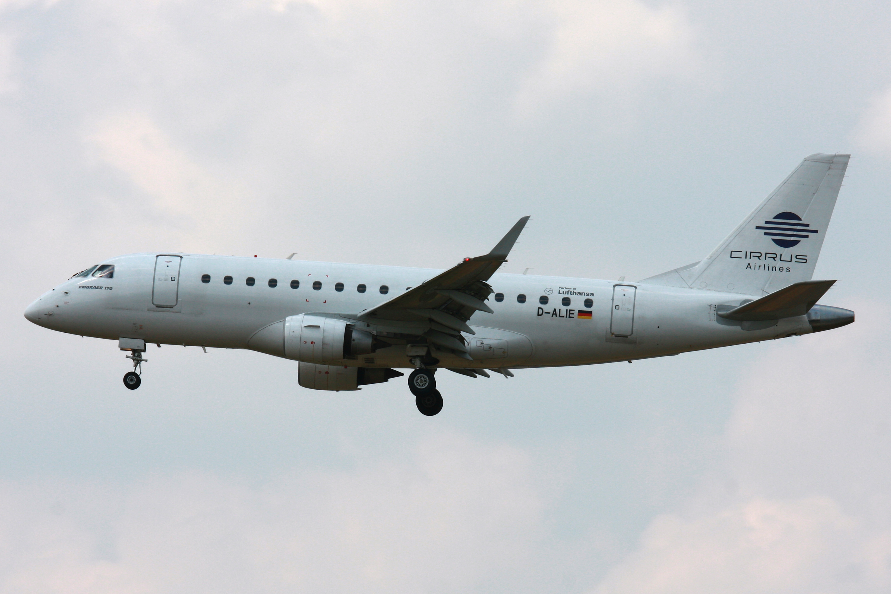 A Embraer 170 of Cirrus Airlines landing at Frankfurt Airport